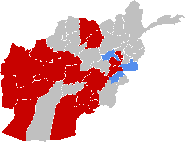 Map of the COVID-19 outbreak in Afghanistan as of 14 March 2020. Be aware that since this is a rapidly evolving situation, new cases may not be immediately represented visually. Refer to the primary article 2020 coronavirus outbreak in Afghanistan or the [1] for most recent reported case information Confirmed cases reported Badghis Balkh Daykundi Farah Ghazni Ghor Herat Kabul Kandahar Kapisa Logar Nimruz Samangan Zabul Suspected cases reported Nangarhar Pakita Parwan